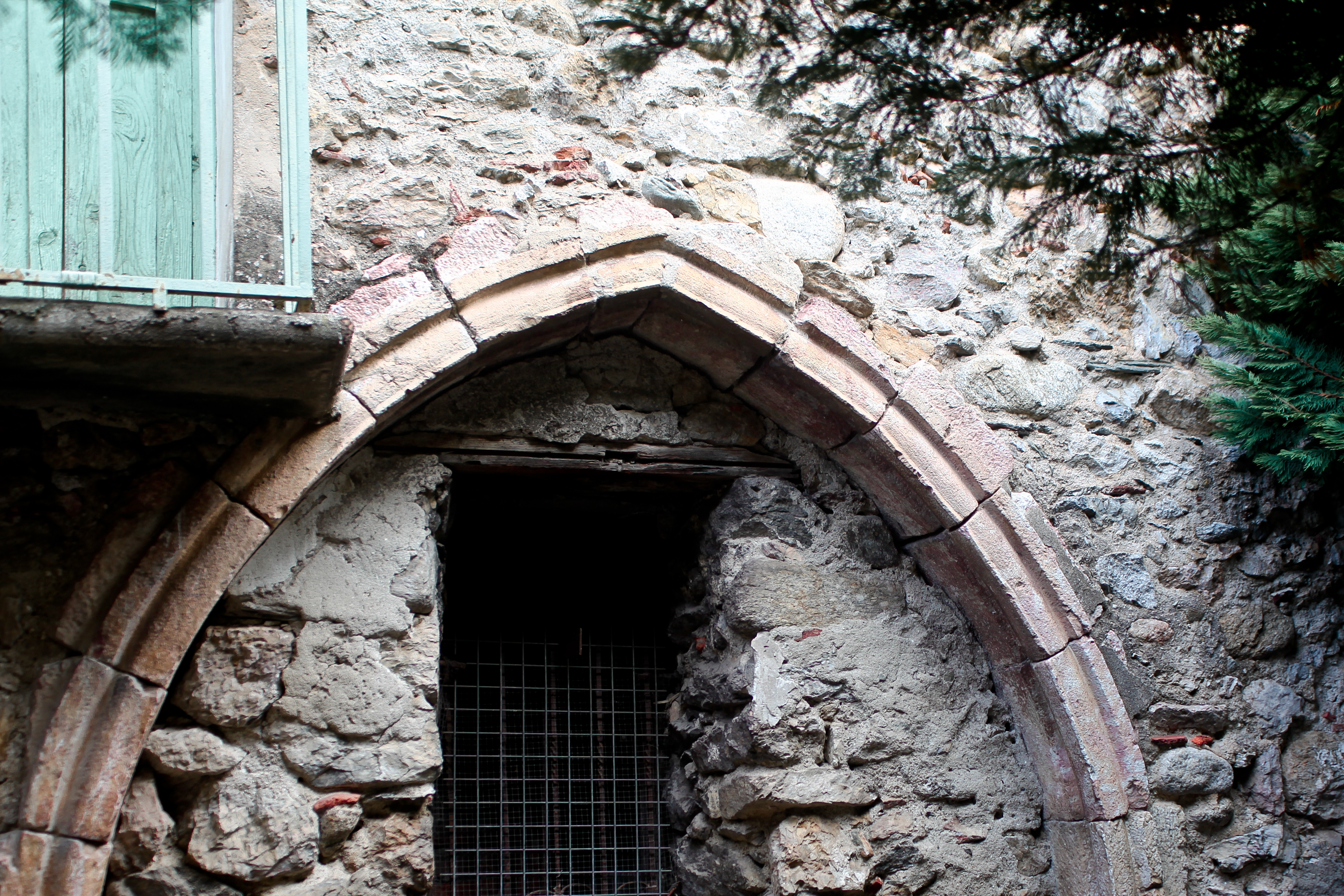 Tombstone of the Autié's house, Villefranche-de-Conflent, France .